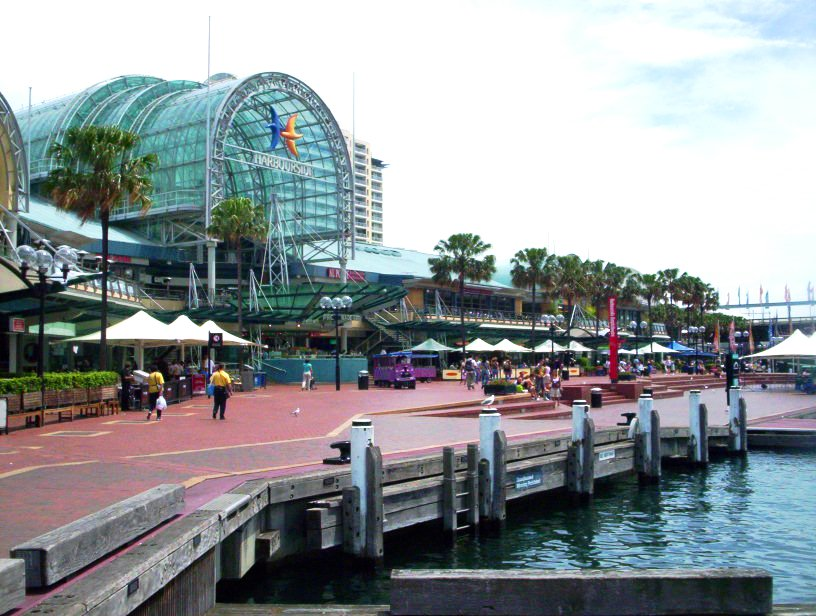 Darling harbour in Sydney, Australia. I took the photo.